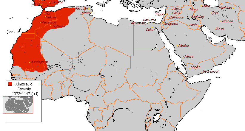 Almoravid dynasty (1073-1147) Accuracy disputed: Denia and noth of Senegal were part of this Empire.